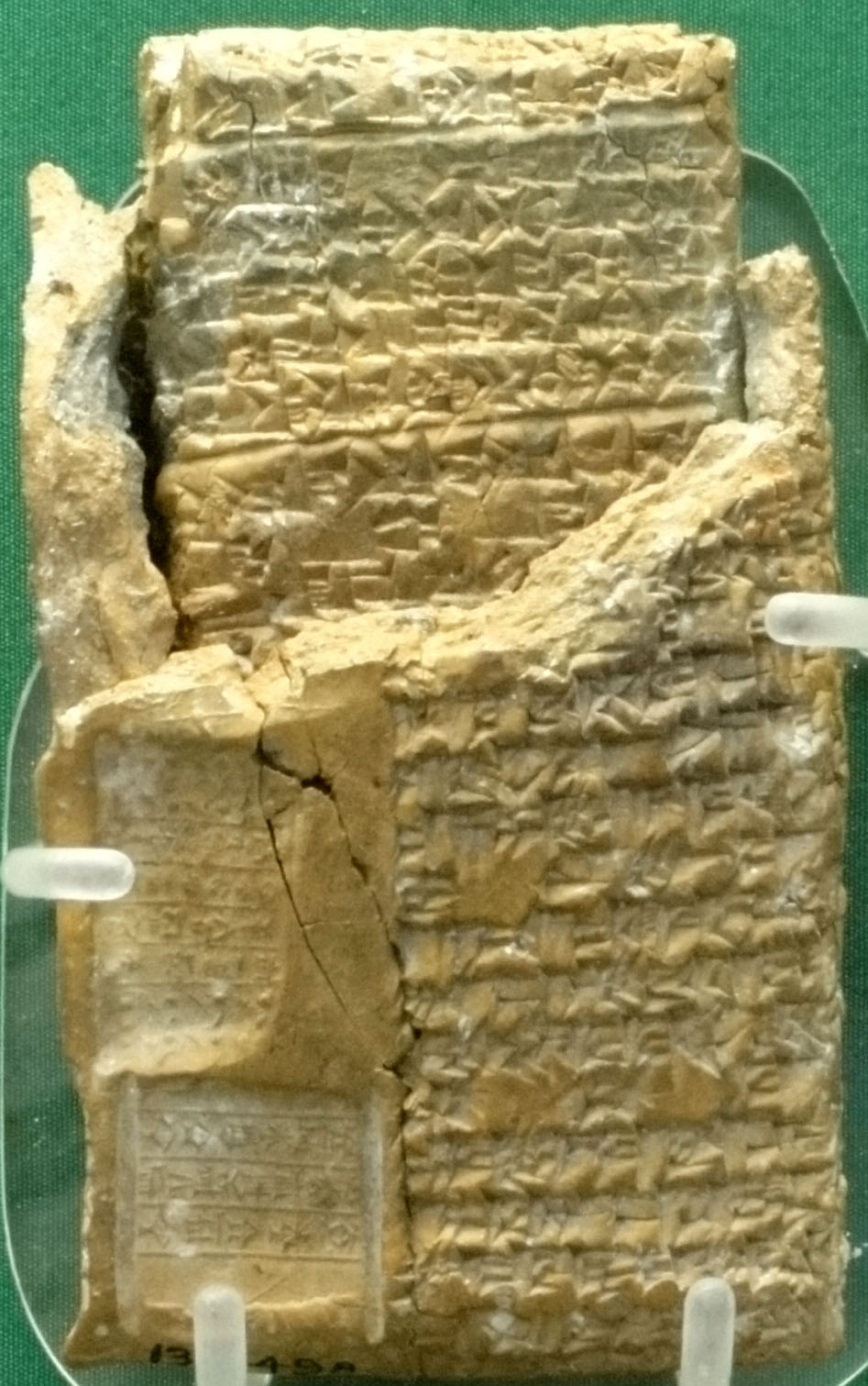 Clay tablet from Alalakh still in clay envelope. Dated 1720 BC.